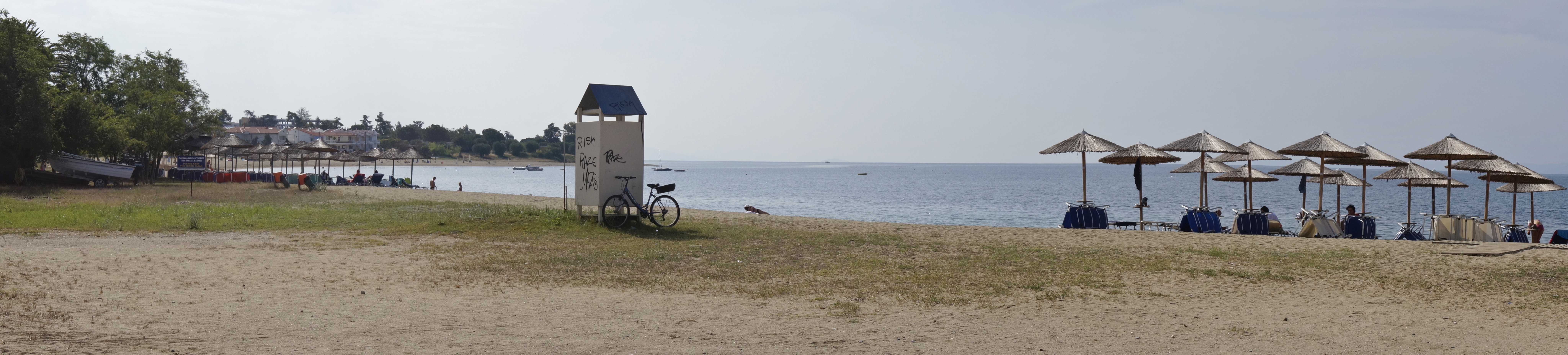 Yerakini seaside central beach, skyline from west, from the main dock, Chalkidiki, Central Macedonia, Greece, Jun 2014